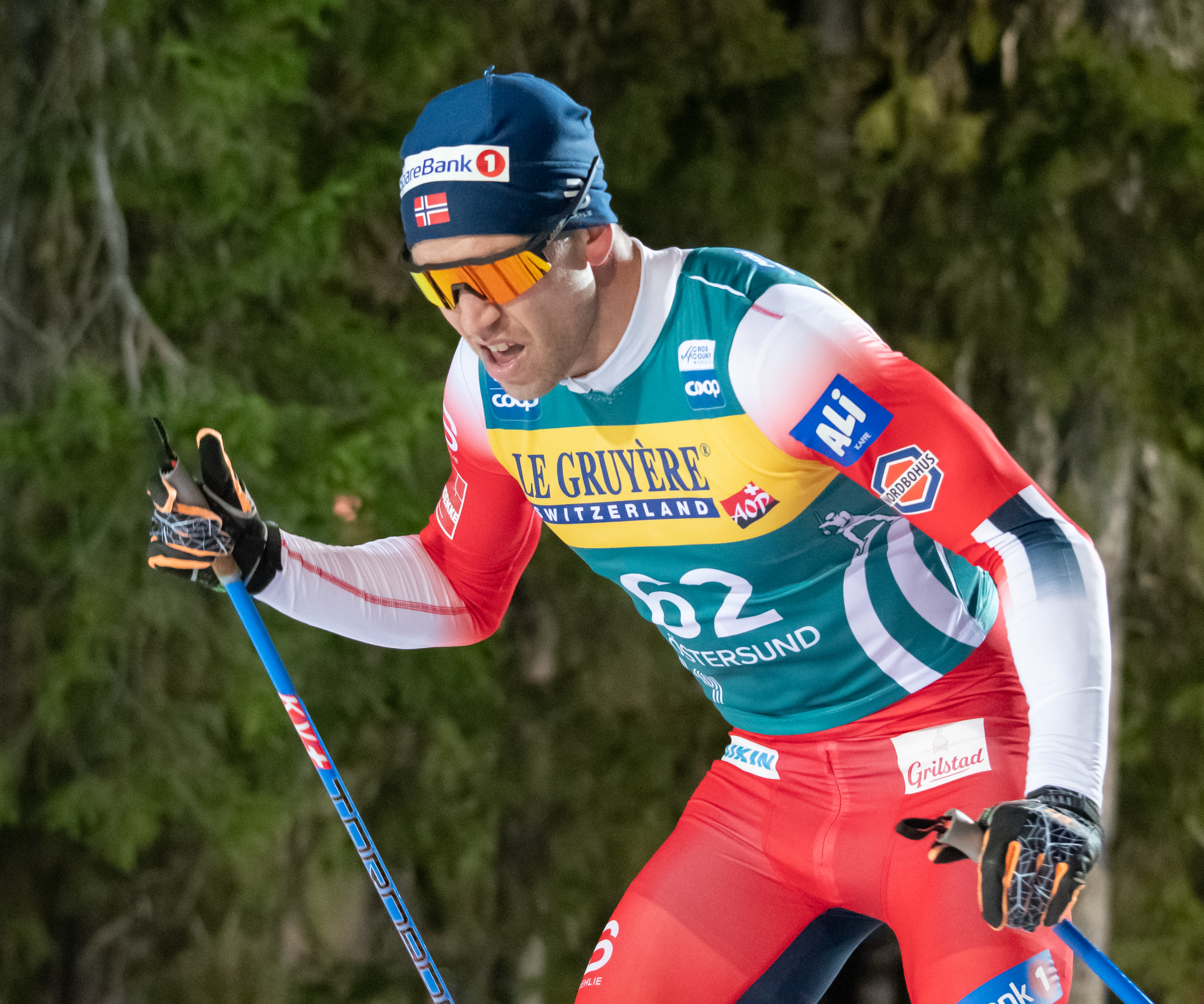 Pål Golberg at Skitour 2020 in Östersund